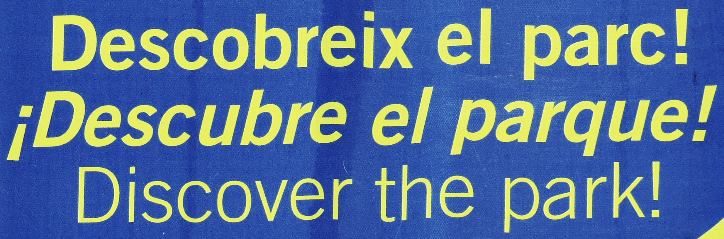 Trilingual Billboard at Montjuïc, Barcelona, Spain (detail), showing the text "Discover the park!" in the regional language (Catalan), in the country language (castellano = Spanish), and English (addressed to tourists). The Spanish text shows the Spanish inverted exclamation mark, but not the text in the regional language.